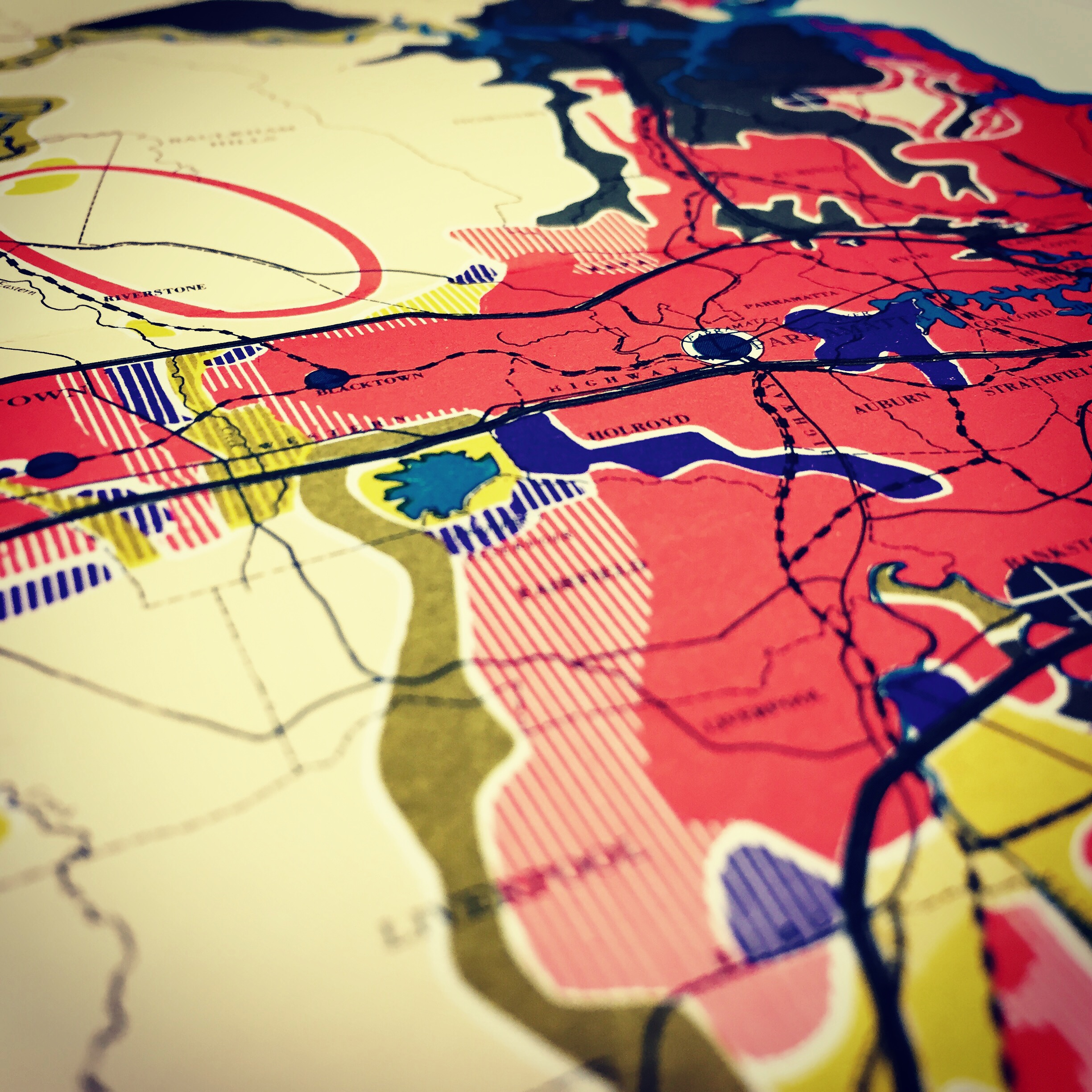 Photograph of Parramatta as shown on Sydney Region Outline Plan 1968 region map, taken at the State Library of NSW, 2015